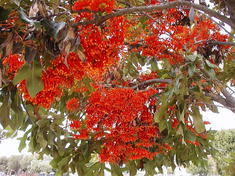 Queensland Firewheel Tree (Stenocarpus sinuatus), cultivated as a street tree in marrickville municipality, Sydney - photo: Cas Liber